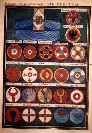 Magister Peditum page 1 from the Roman Notitia Dignitatum (5th century AD) 1° row Iovani seniores 2° row Herculiani seniores 3° row Divitenses seniores Tongrecani seniores Pannoniciani seniores Moesiaci seniores Armigeri propugnatores seniores 4° row Lanciarii Sabarienses Octaviani Thebaei Cimbriani Armigeri propugnatores iuniores 5° row Cornuti seniores Brachiati seniores Petulantes seniores Celtae seniores Heruli seniores 6° row Batavi seniores Mattiaci (seniores? iuniores?) Ascarii seniores Ascarii iuniores Iovii seniores